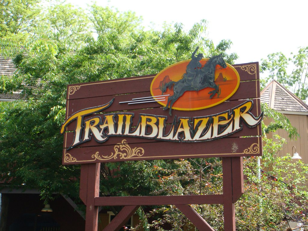 This is the sign at the entrance to Trailblazer at Hersheypark